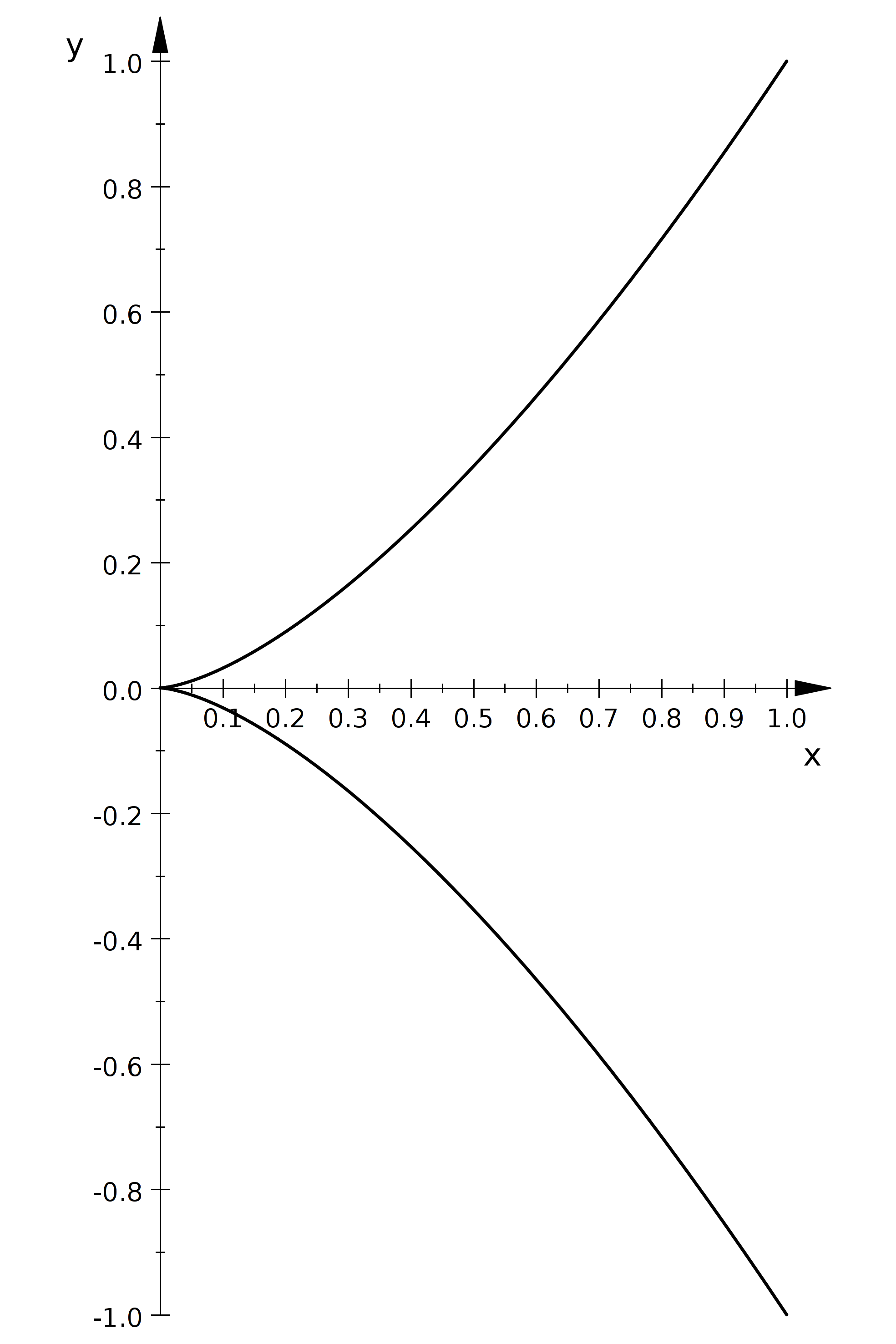 Neil parabola